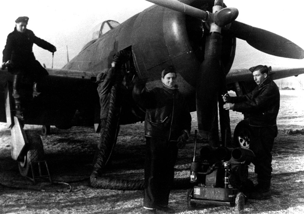 French Armée de l'air mechanics with a Republic P-47D Thunderbolt of Escadron de Chasse 3/3 "Ardennes". EC 3/3 received 25 P-47Ds in October 1944 and flew them until bein disbanded at Koblenz, Germany, in March 1946.